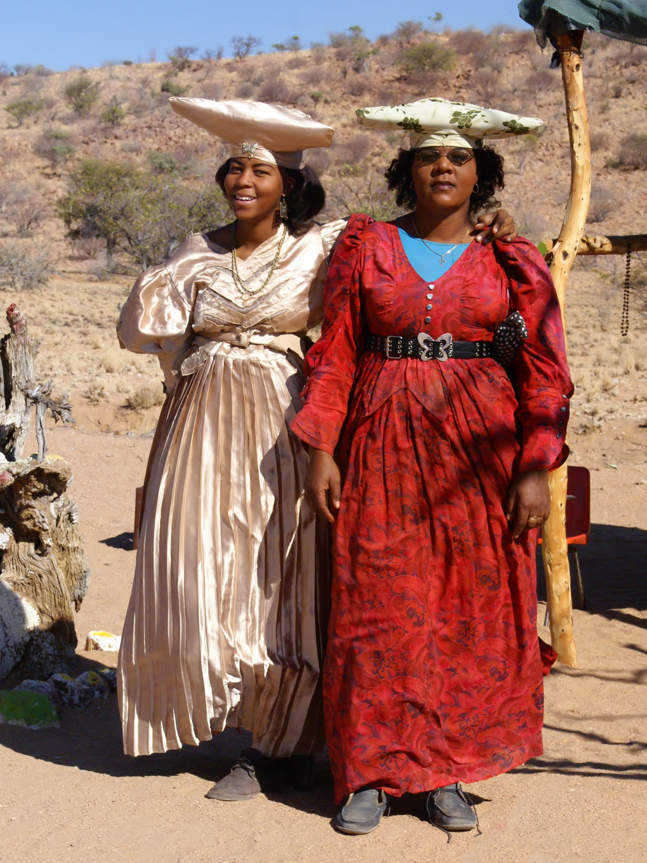 Herero ladies near Uis, Namibia.